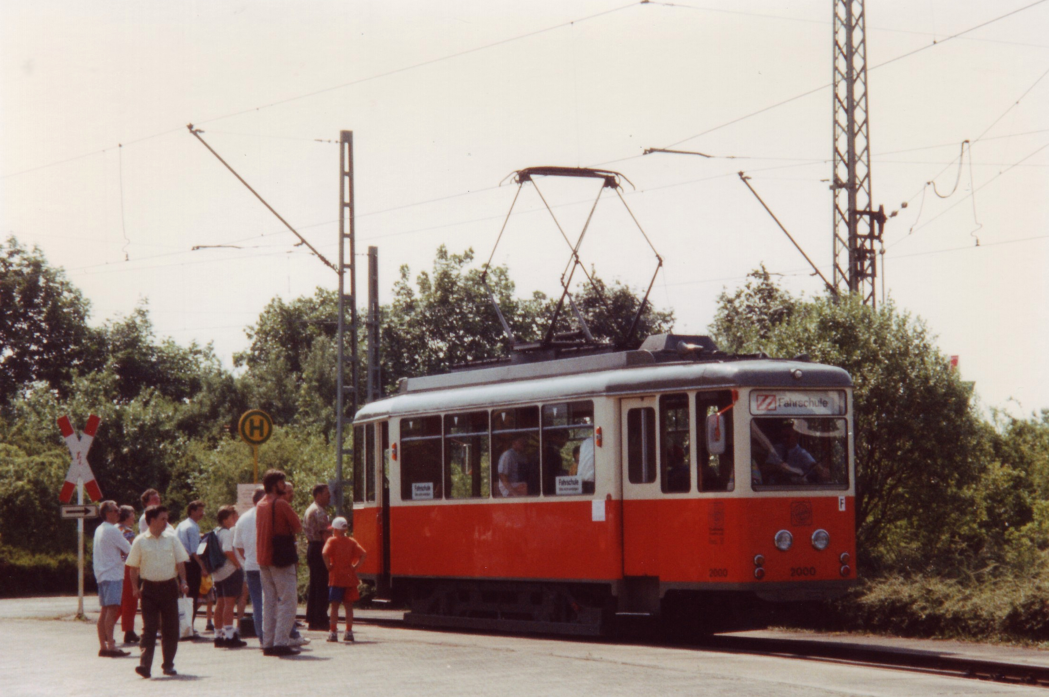 driving school railcar 2000 at at the Stadtbahnzentralwerkstatt in Frankfurt am Main-Rödelheim, June 1997